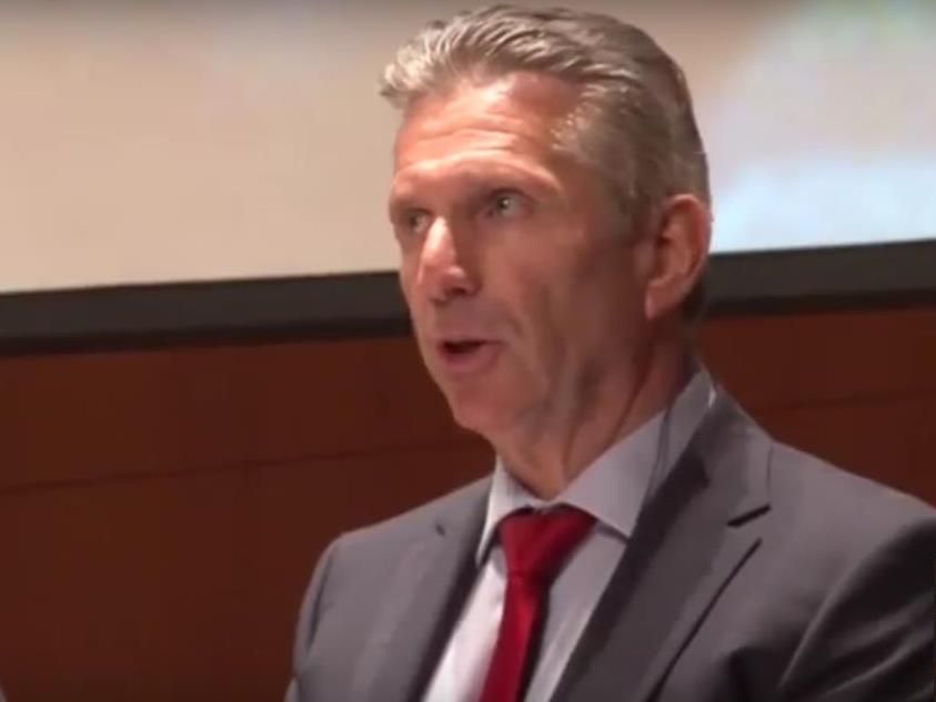 Dutch member of parliament Louis Bontes (PVV) in 2012